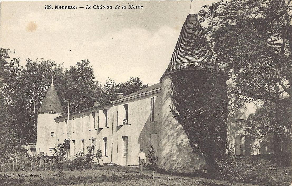 The castle of la Mothe, near Meursac, France. Old postcard.